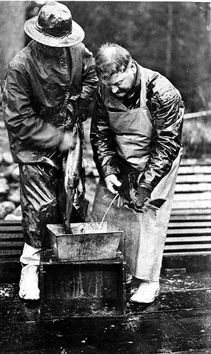 On verso of image: Fertilizing salmon eggs as extruded from female. Salmon hatcheries . In Folder F116 Subjects (LCSH): Fish hatcheries--Alaska; Salmon industry--Alaska; Salmon--Eggs--Alaska; Fishes--Artificial spawning--Alaska